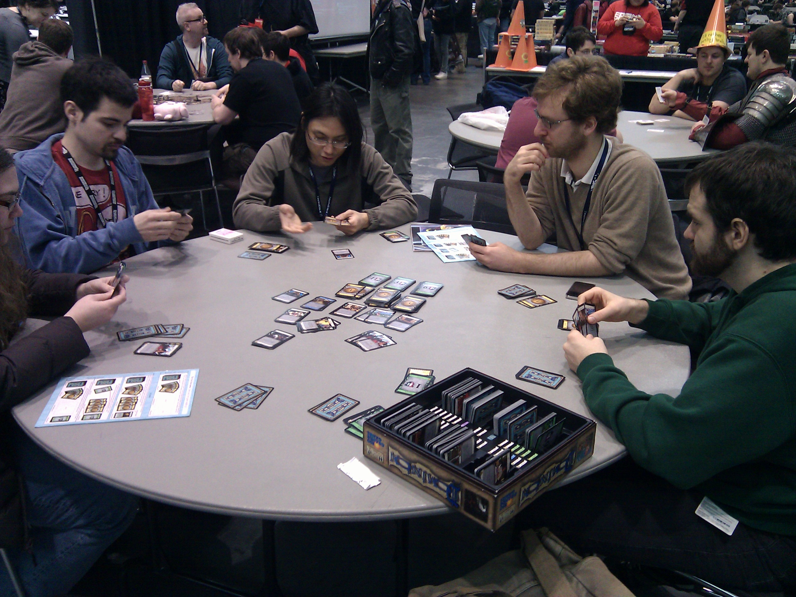 A good couple of hours of Dominion, and then ten minutes of We Didn't Playtest This. From left to right: dinty_moore, her boyfriend Dan, ignignokt, grobstein, Bizarro